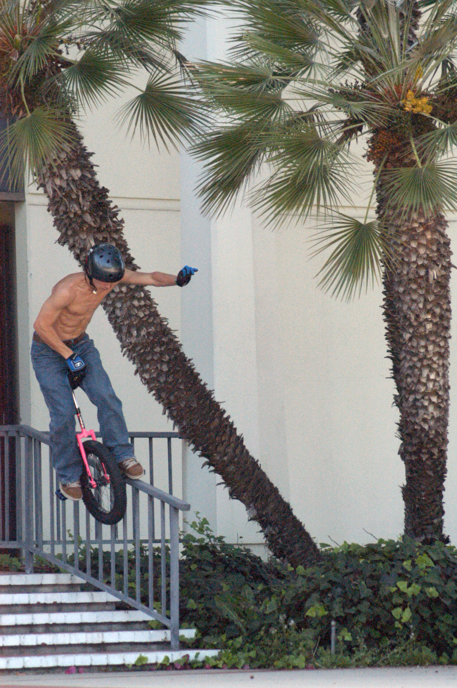 Jess Riegel grinding a rail in Santa Barbara, CA. Photo by Alex Navarro